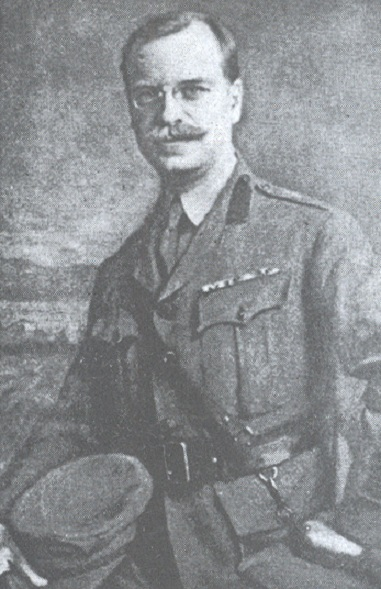 John Frothingham (1879 — 1935)